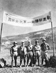 CHINESE EXPEDITIONARY FORCES WELCOMING THE TRIUMPHAL RETURN OF CHINESE ARMY IN INDIA-BURMA